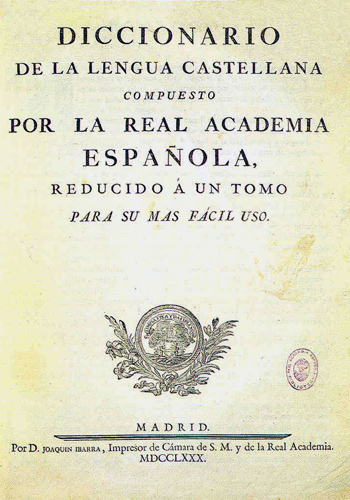 Title page of the Diccionario de la lengua castellana, Madrid 1780.